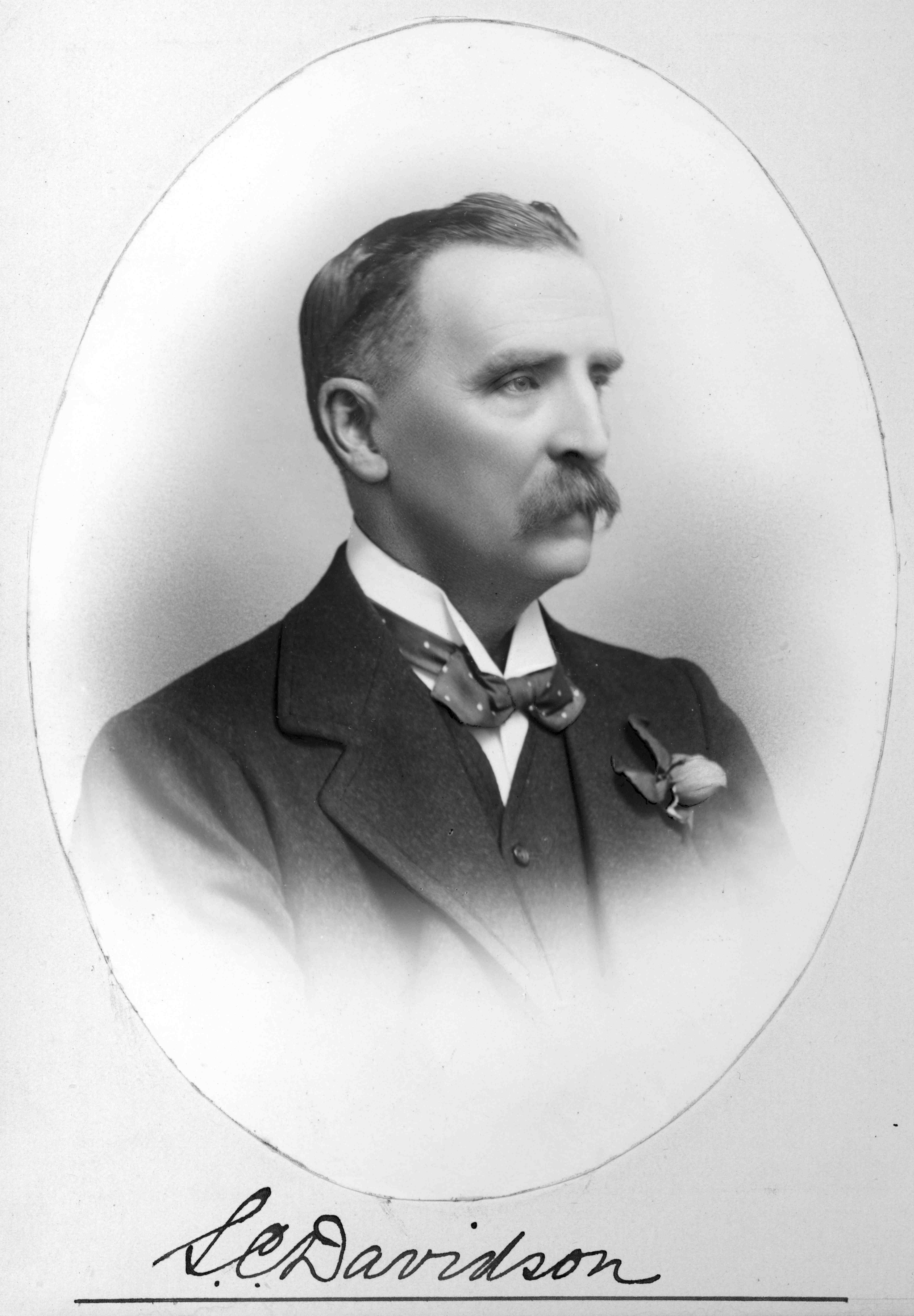 Samuel Cleland Davidson portrait photo and signature from his daughter Kathleen's wedding album. This is a scan of a family photo in the Bleakley Family archive owned by the copyright holder.